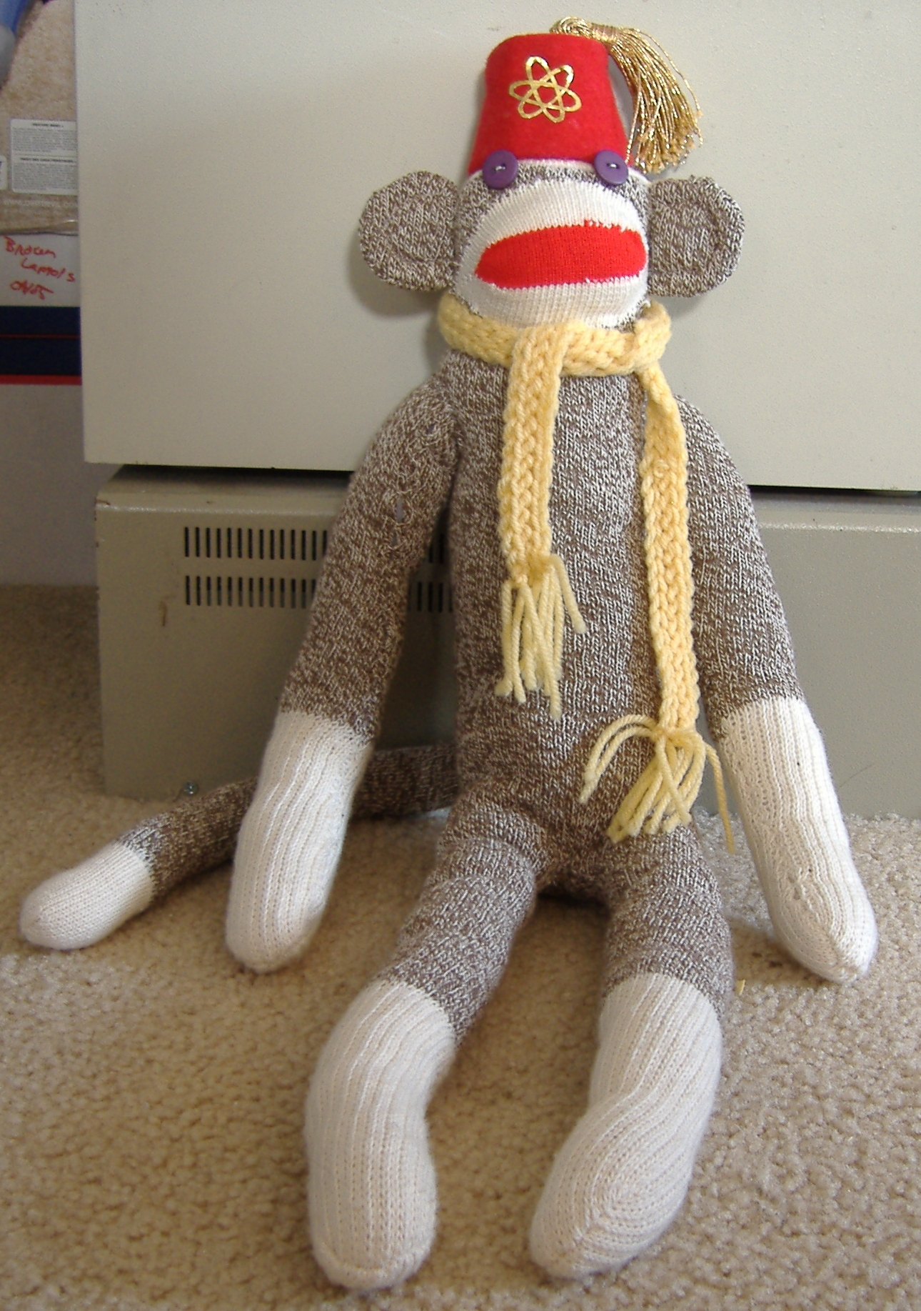 Photo of a homemade sock monkey, made by Stacey Shintani of Chicago, Illinois.